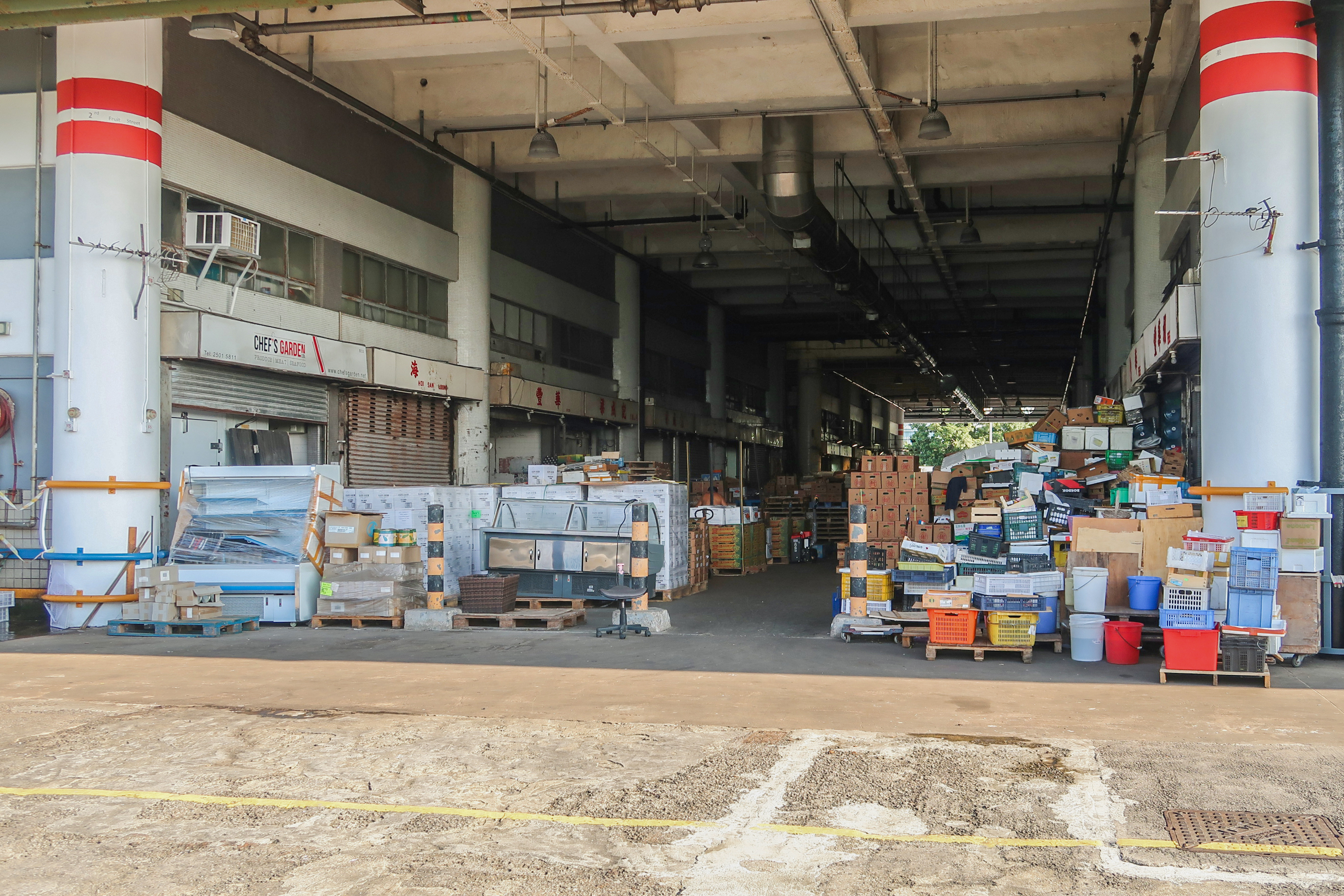 Western Wholesale Food Market